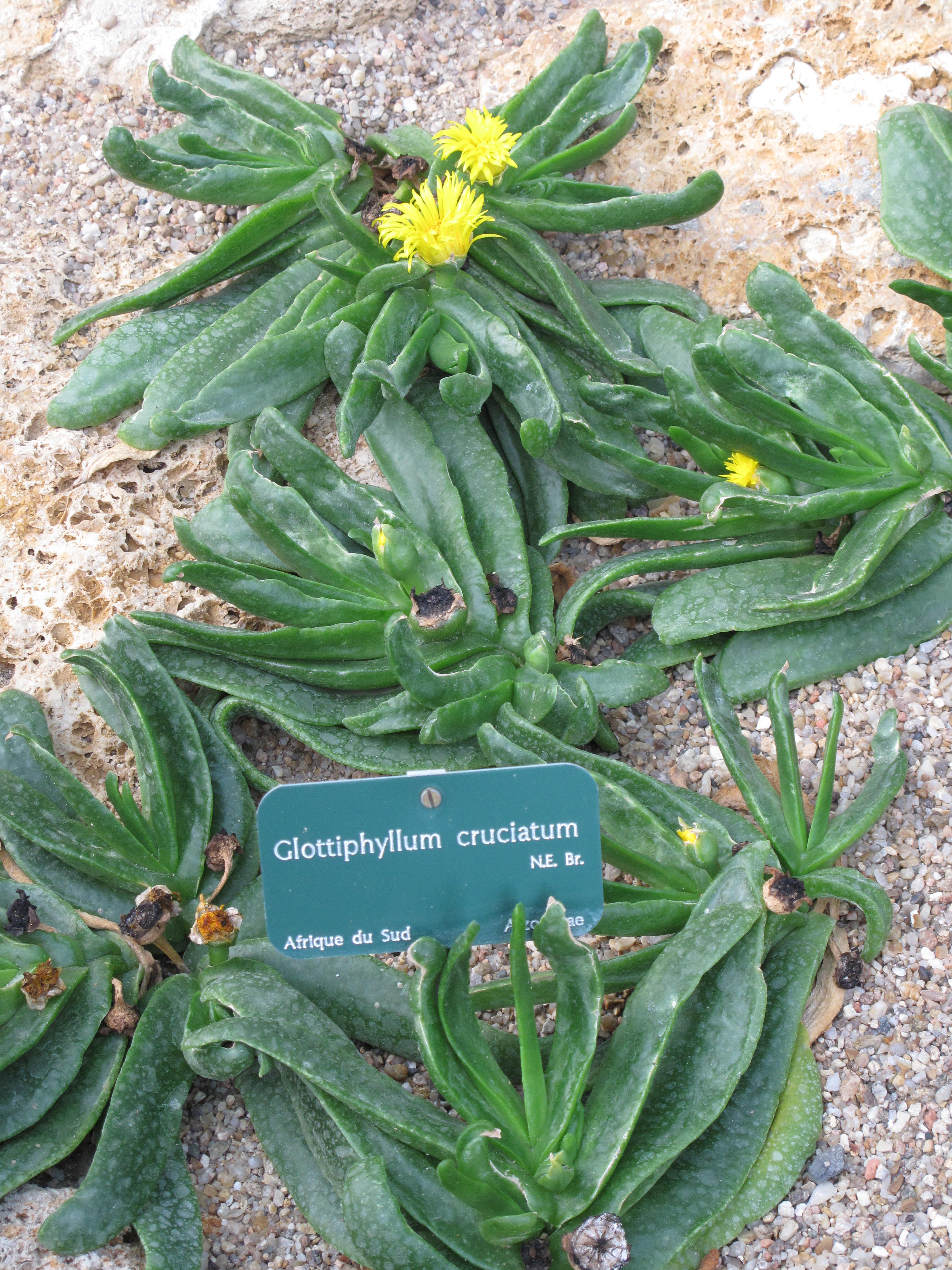 Glottiphyllum longum - mislabelled as cruciatum - in a greenhouse of the Jardin des Plantes in Paris.